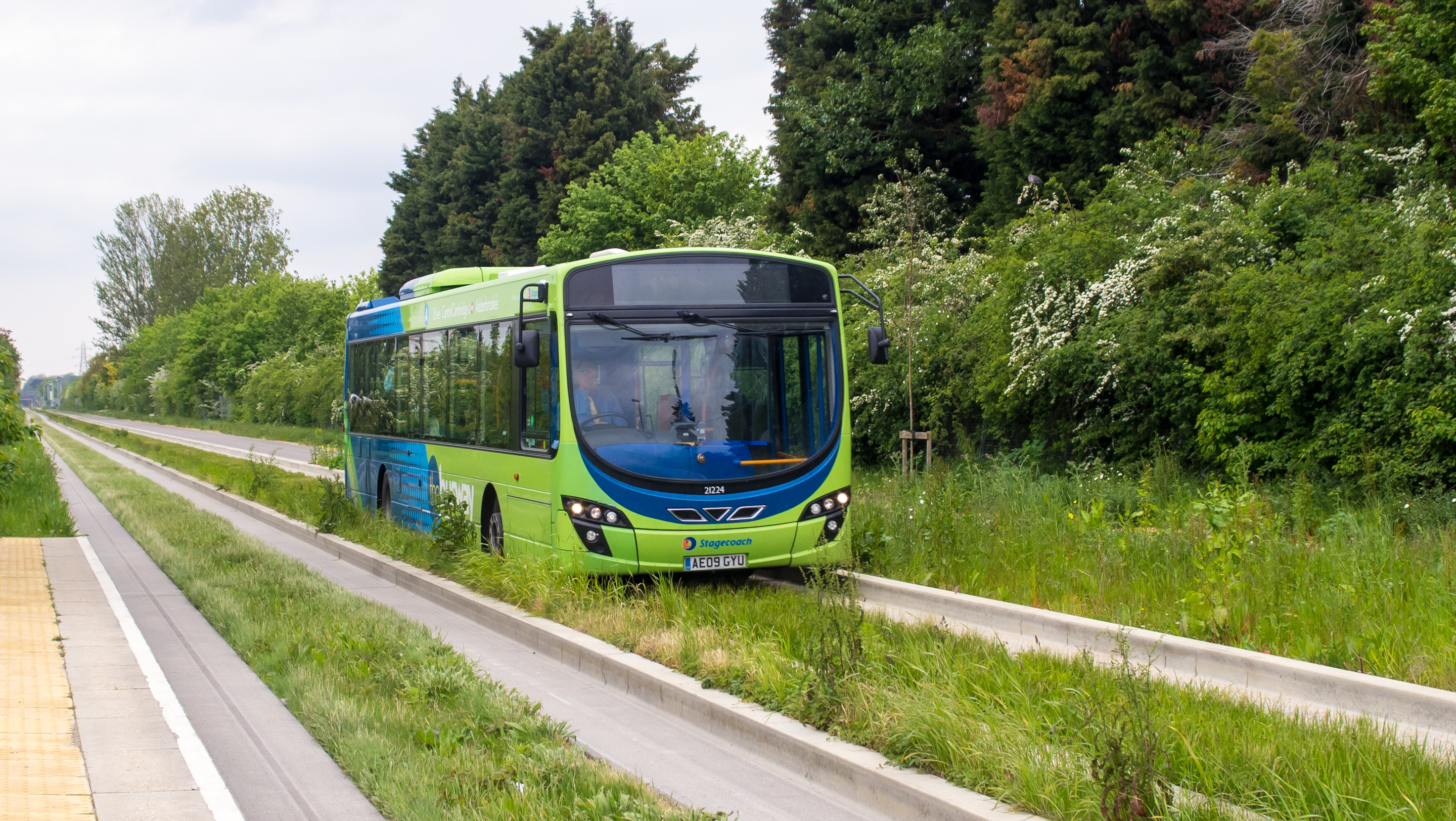 Stagecoach Huntingdonshire 21224 (AE09 GYU), a Volvo B7RLE/Wright Eclipse Urban on the Cambridgeshire Guided Busway on route A at Science Park stop.